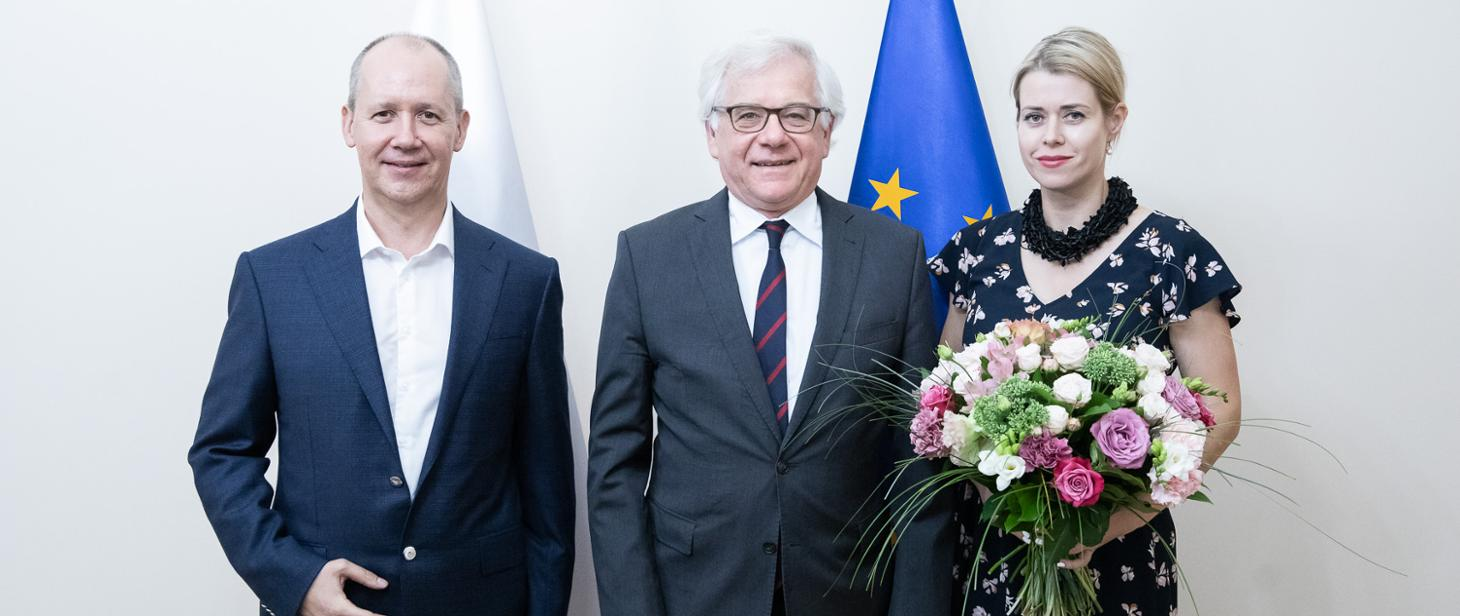 Minister of Foreign Affairs of Poland Jacek Czaputowicz receives Valery and Veronika Tsepkalo